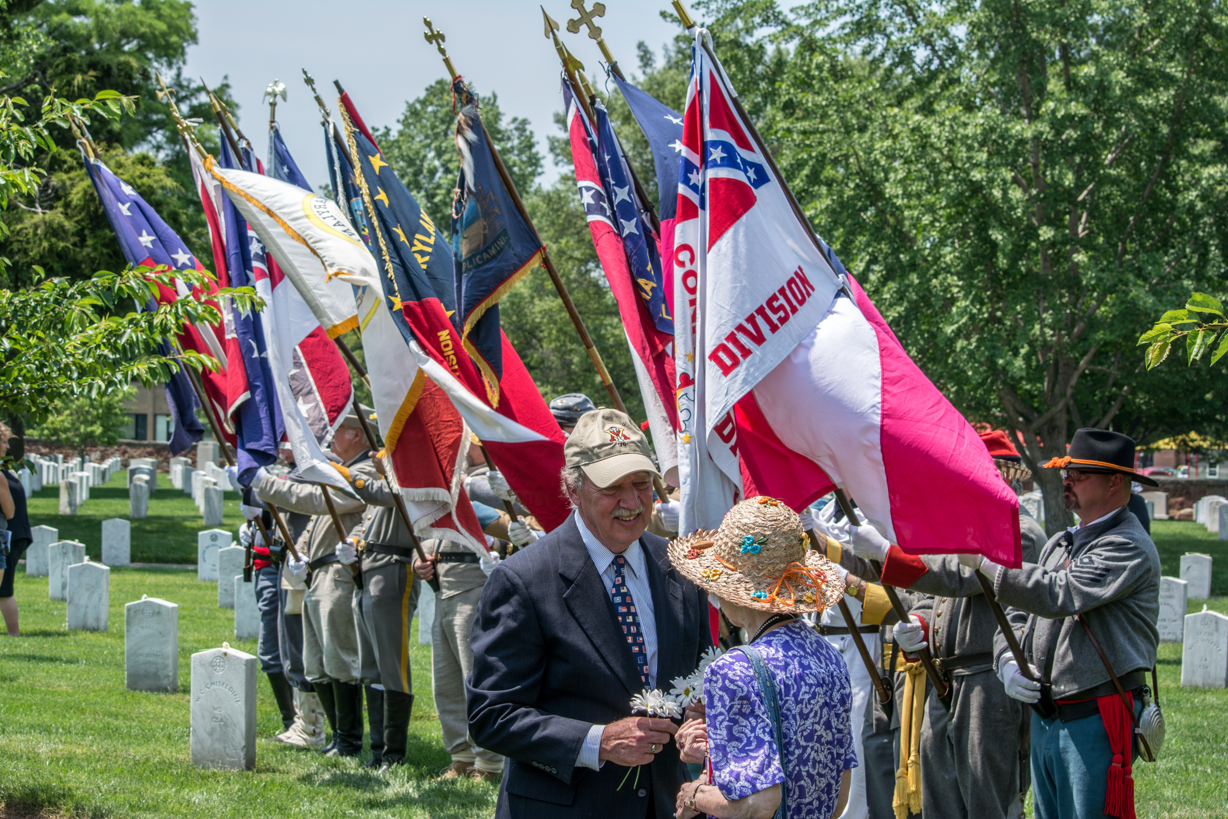 Mr. Waite Rawls, co-director, American Museum of the Civil War, speaks with an audience member while the color guard stands at attention during Confederate Memorial Day exercises at the Confederate Memorial in Arlington National Cemetery in Arlington County, Virginia, in the United States on June 8, 2014. The United Daughters of the Confederacy has led Confederate Memorial Day exercises at the memorial since 1904. Flowers are routinely strewn on the graves of the Confederate dead during the ceremony. The color guard was provided by the Maryland Division, Sons of Confederate Veterans (SCV).